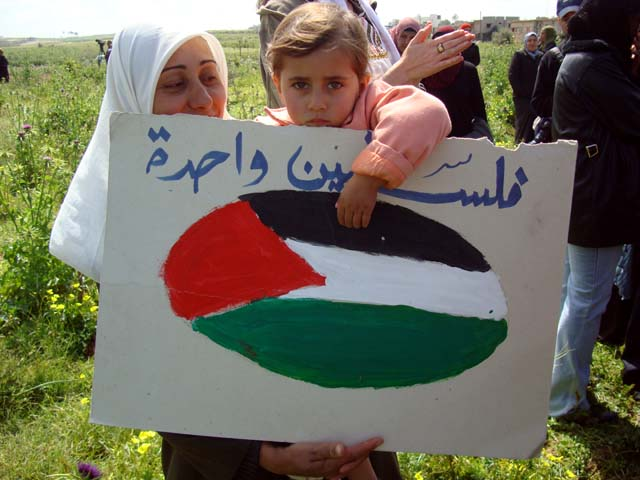 A Palestinian child holds a sign during an activity to mark Land Day in Beit Hanoun, Gaza Strip